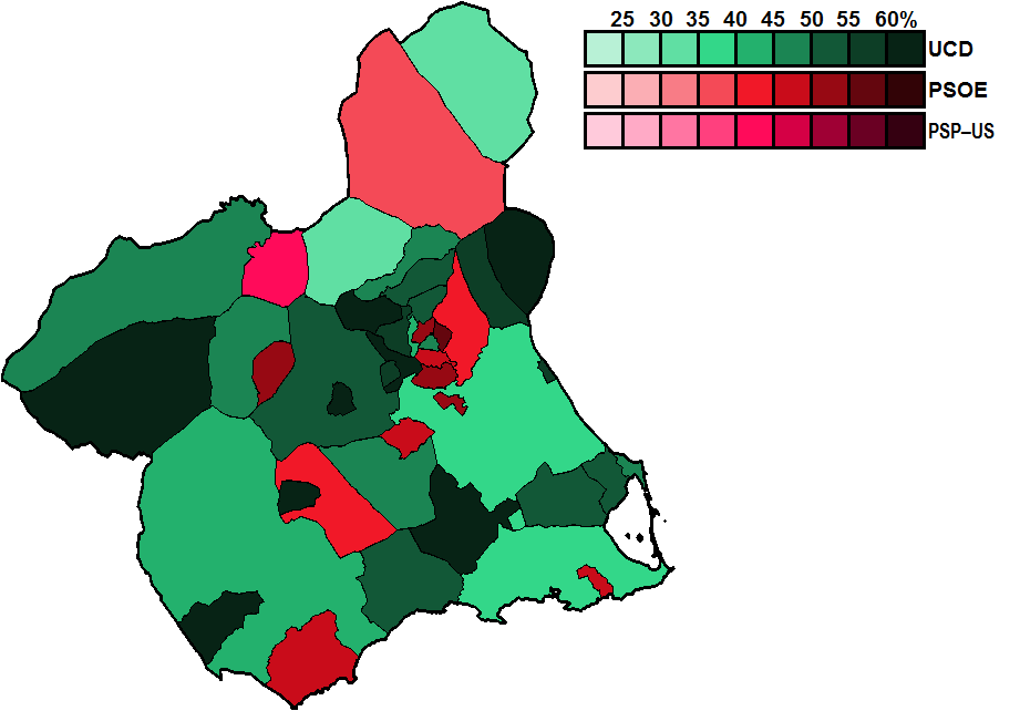 Most-voted party in Murcia municipalities, showing vote share obtained, in the Spanish general election, 1977.